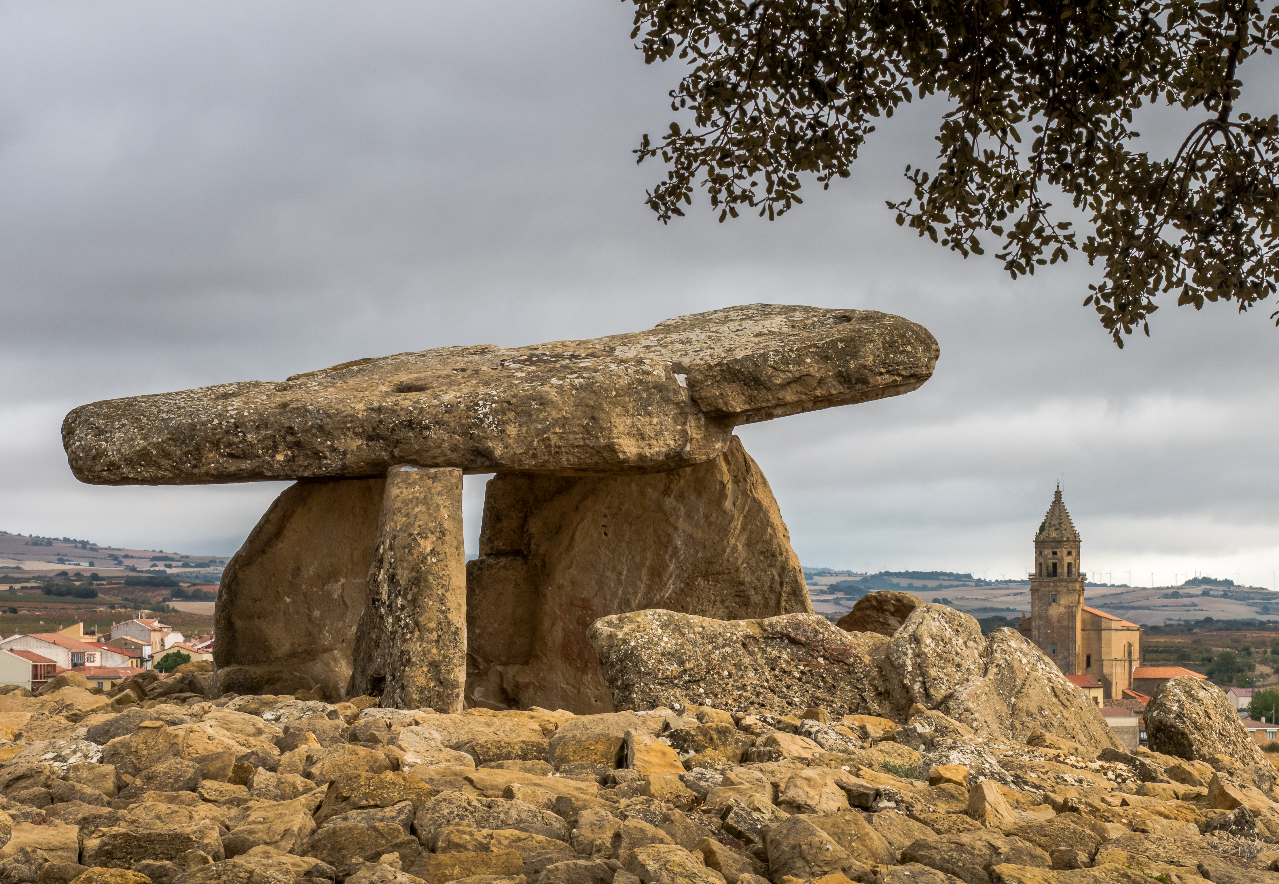 Dolmen Chabola de la Hechicera ("The Sorceress' hut") in Elvillar. Álava, Basque Country, Spain